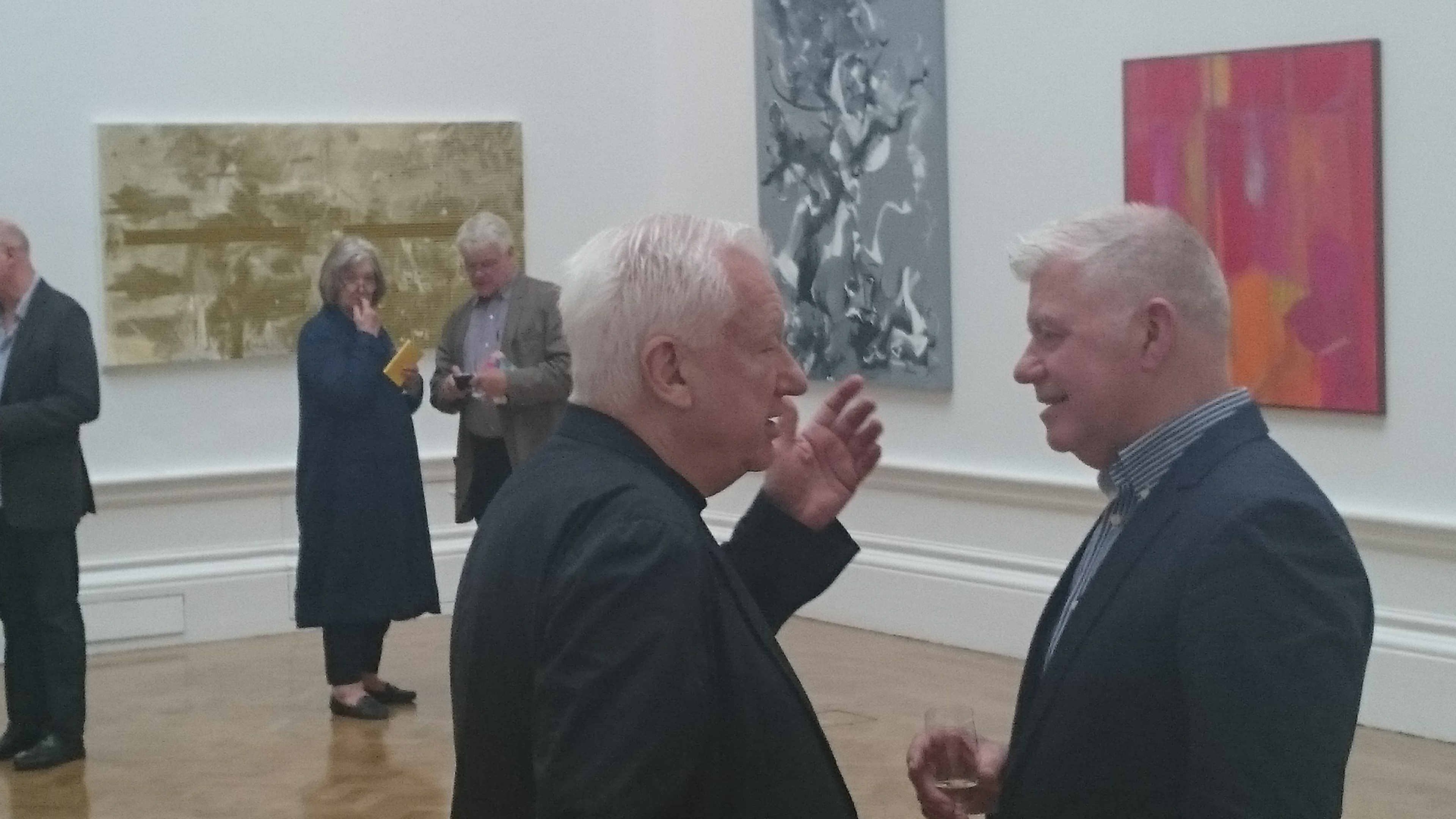 Coordinator of the 2015 Royal Academy Summer Exhibition, Michael Craig Martin (left), and Keith Milow at the artists' opening ("varnishing day") in Burlington House.